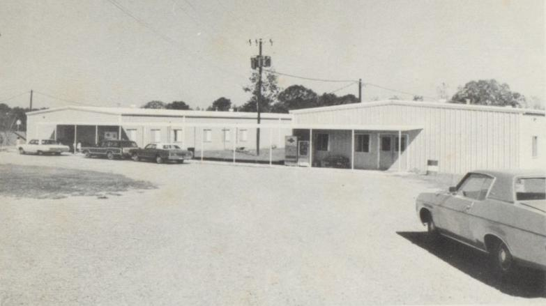 in 1973